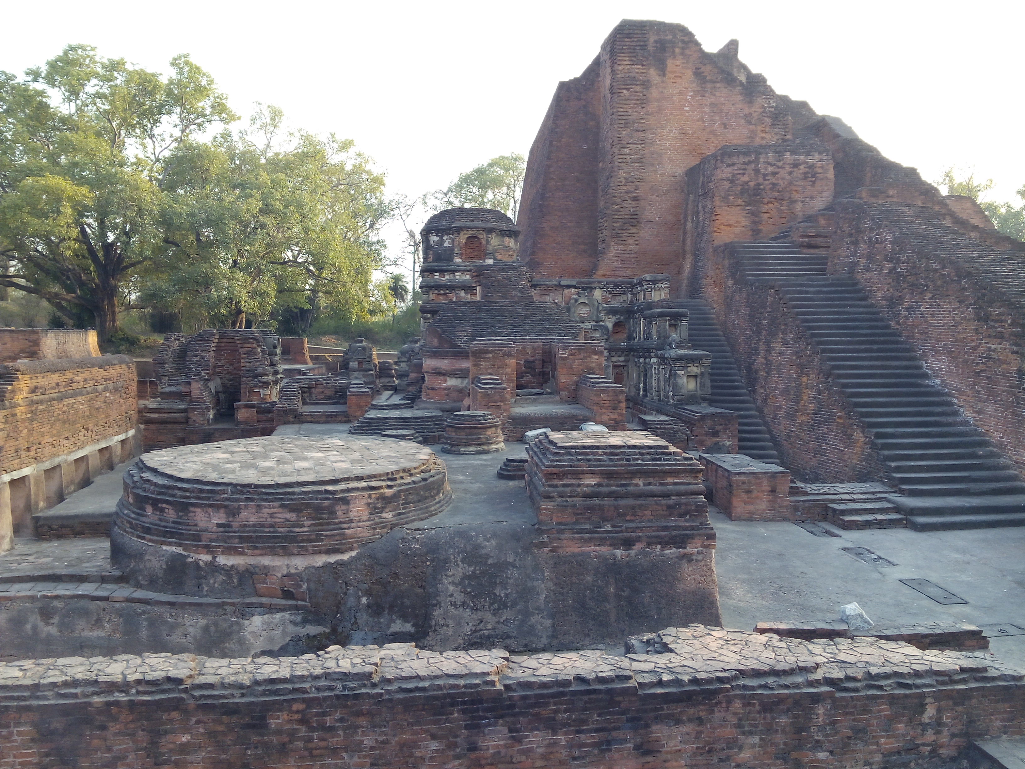 Sariputta Stupa is the most prominent structure in the ancient Nalanda University, Bihar. It comprises bones of Sariputta, two principal disciples of the Buddha. It is a UNESCO World Heritage Site.